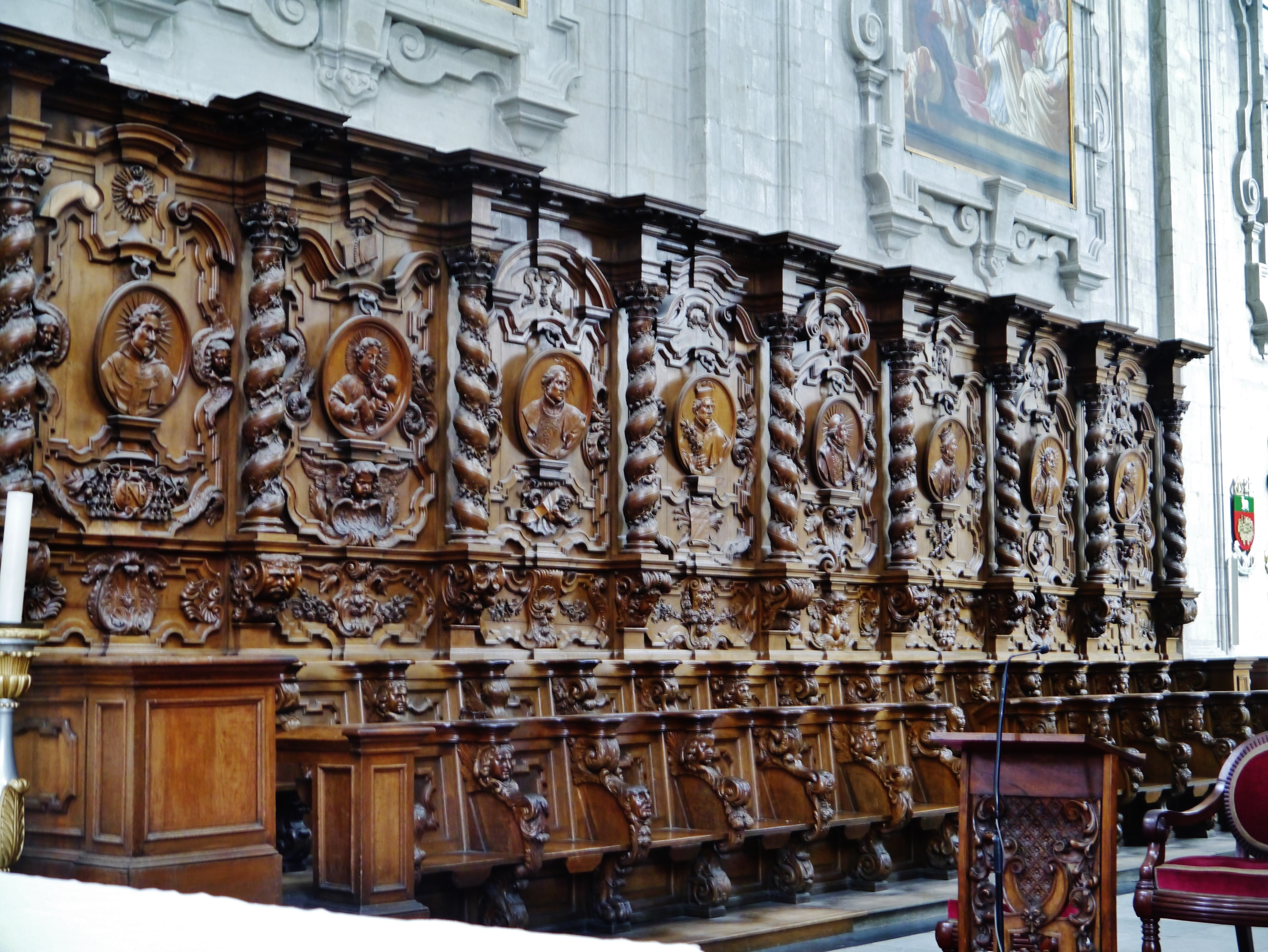 Choir Stalls of the Basilica St. Servatius, Grimbergen, Province of Flemish Brabant, Flanders, Belgium